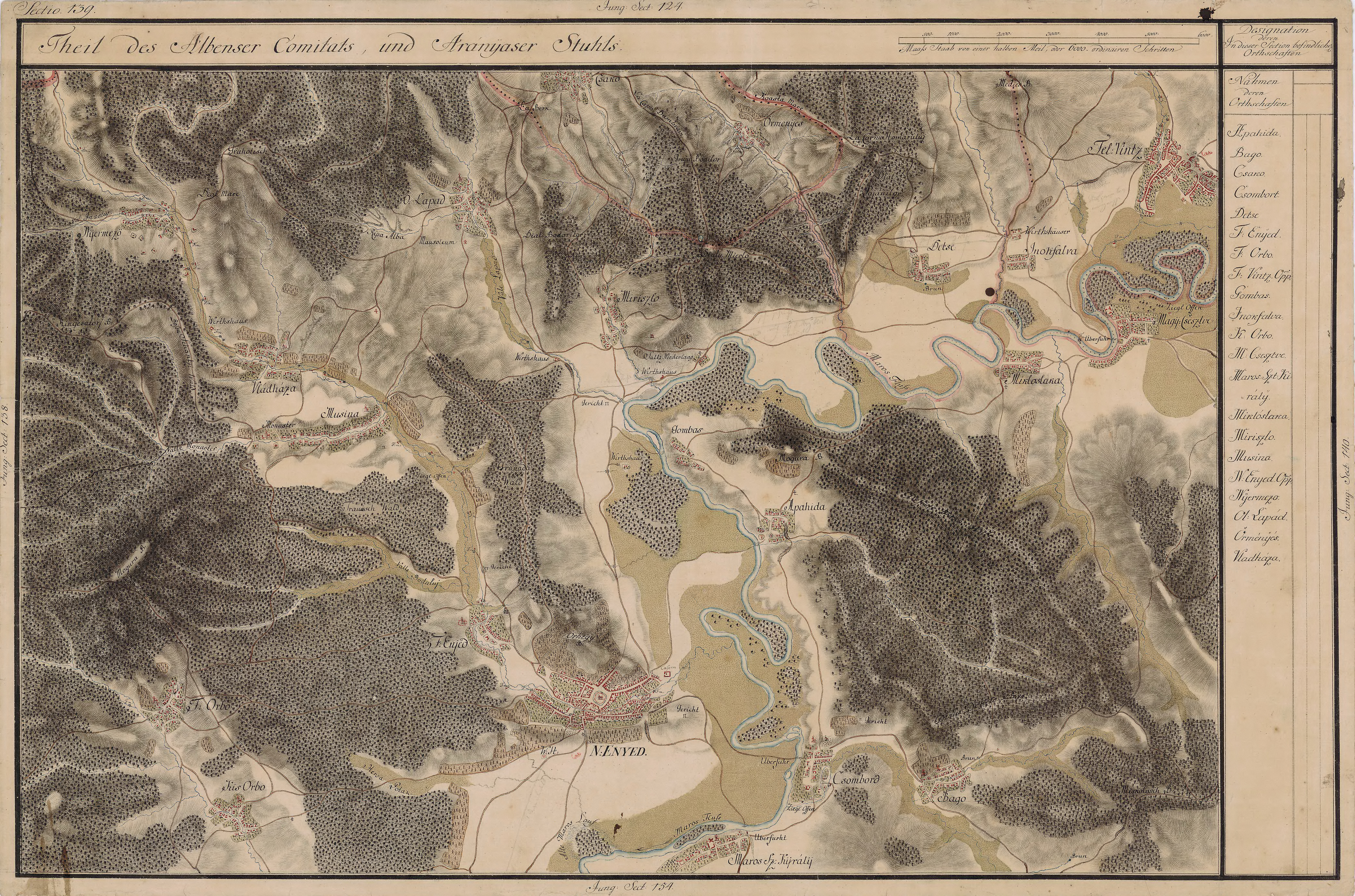 Grand Duchy of Transylvania, 1769-1773. Josephinische Landaufnahme pg.139Română: Harta Iosefină a Transilvaniei, 1769-1773. Josephinische Landaufnahme pg.139